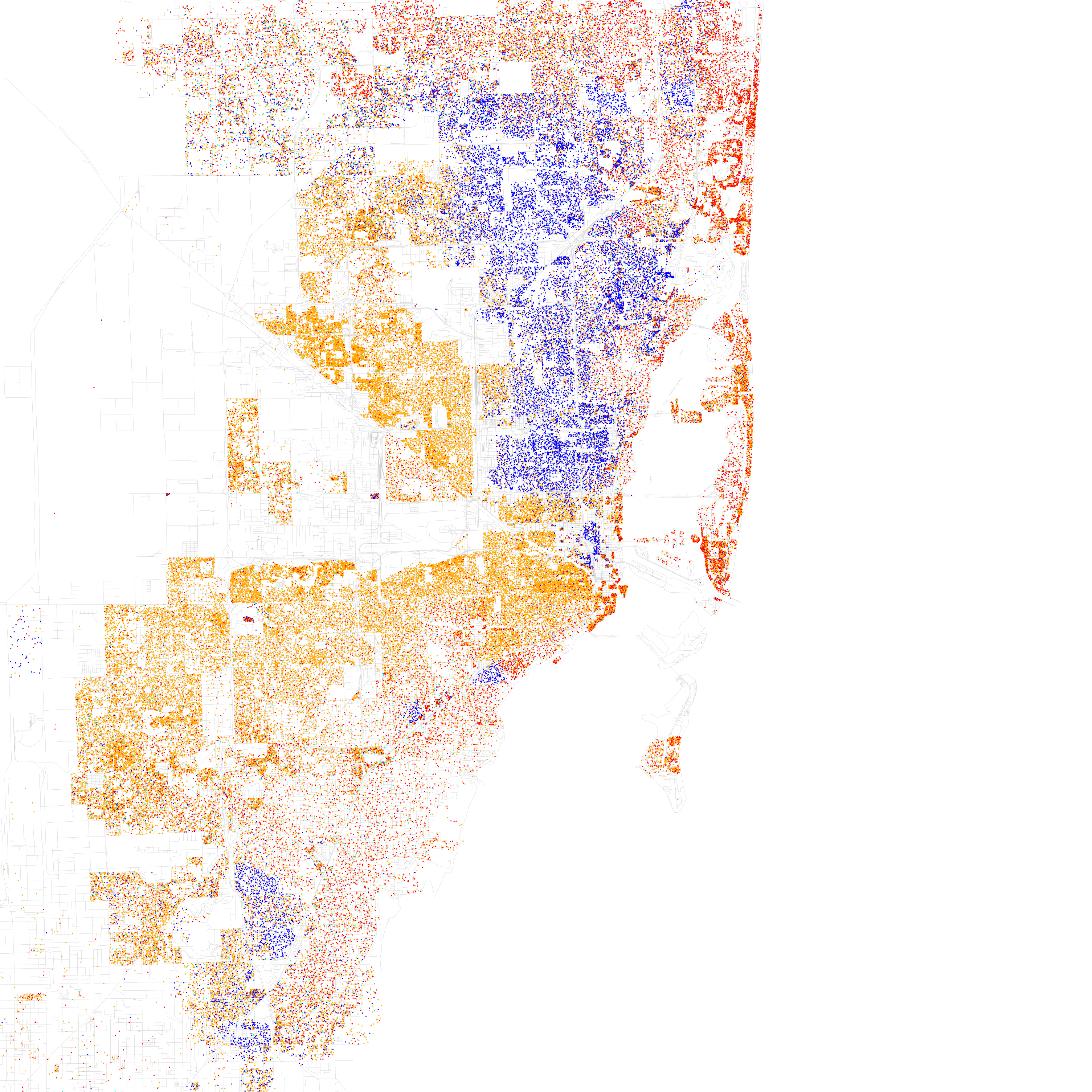 Maps of racial and ethnic divisions in US cities, inspired by Bill Rankin's map of Chicago, updated for Census 2010. Red is White, Blue is Black, Green is Asian, Orange is Hispanic, Yellow is Other, and each dot is 25 residents. Data from Census 2010. Base map © OpenStreetMap, CC-BY-SA